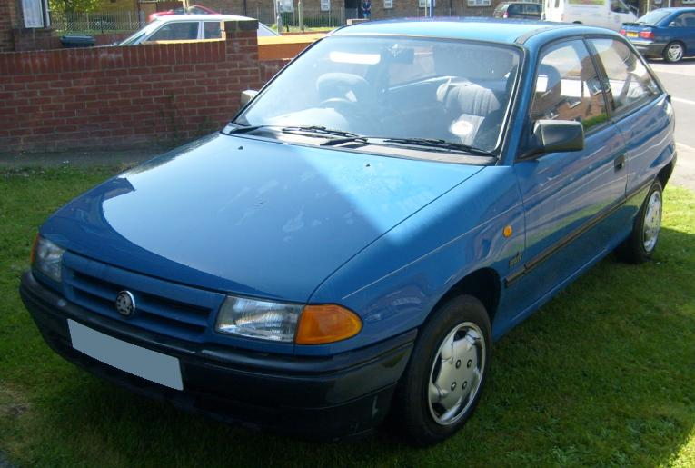 A Vauxhall Astra Mark 3 Phase 1 two-door hatchback.